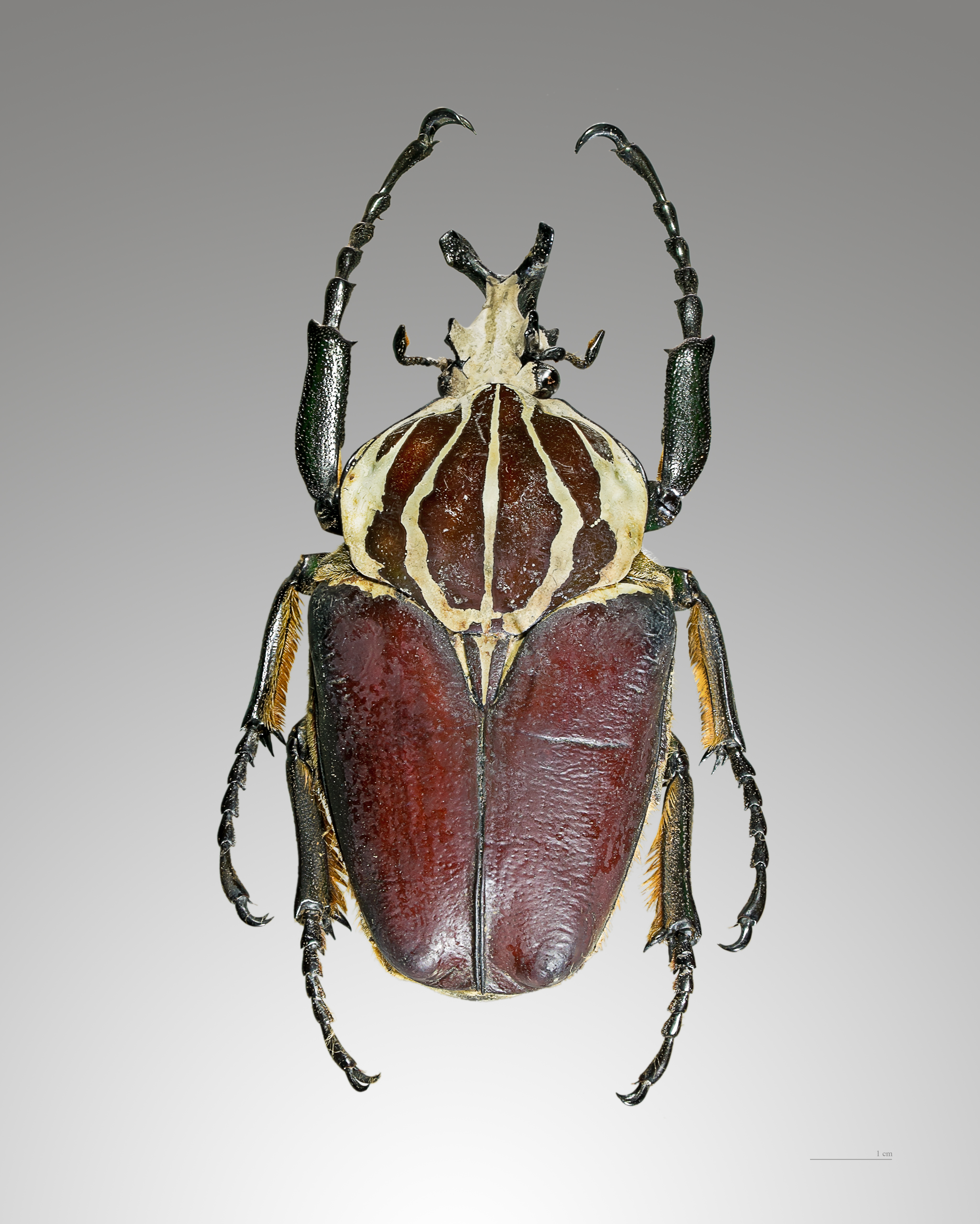 ♂ - Dorsal side Locality : Central African Republic.